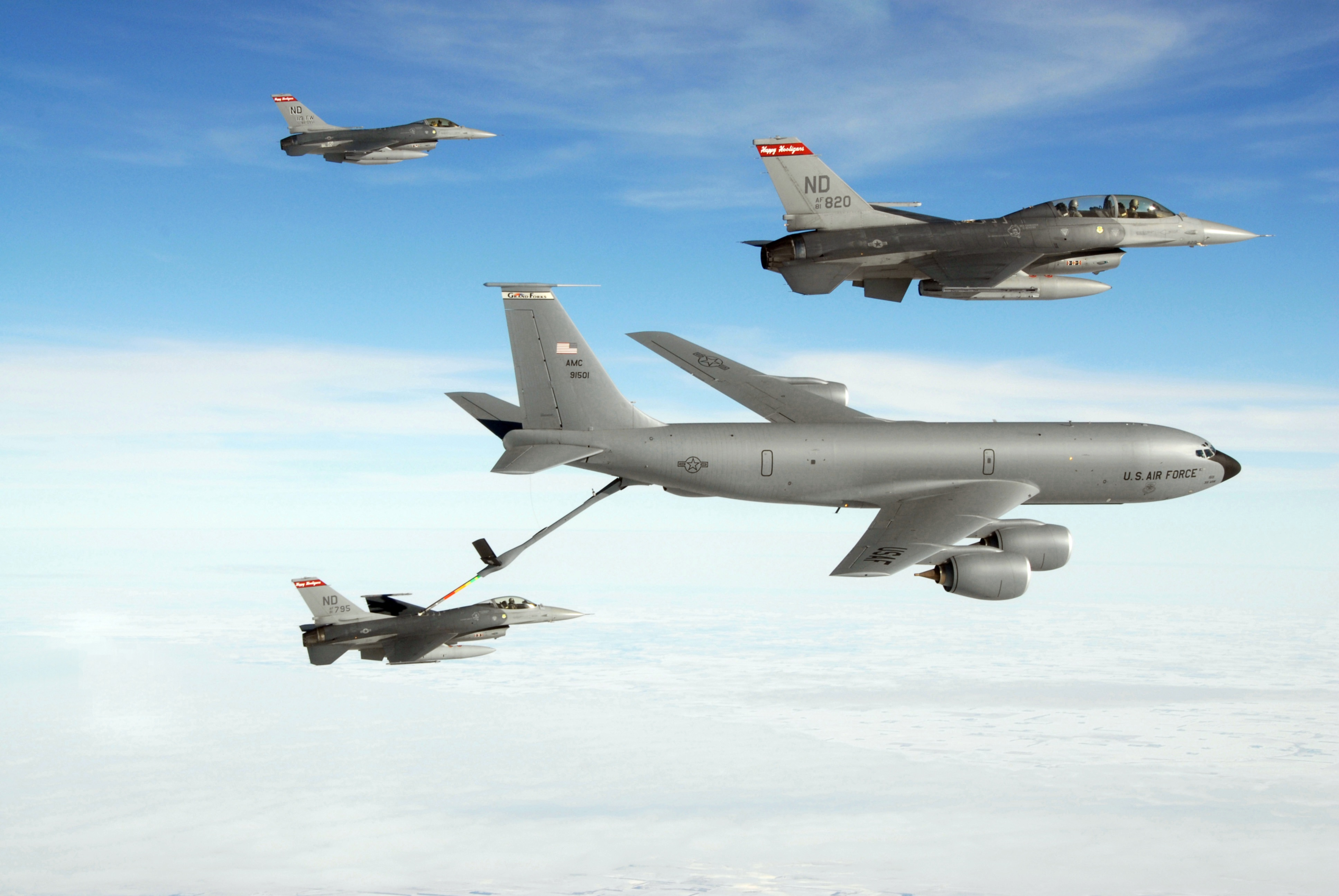 A U.S. Air Force Boeing KC-135R Stratotanker aircraft (s/n 59-1501) from 319th Air Refueling Wing refuels one of two General Dynamics F-16A (s/n 81-0795, 82-0951) and one F-16B Fighting Falcon aircraft (s/n 81-0820) from the 119th Fighter Wing, North Dakota Air National Guard over North Dakota on 16 January 2007. The aircraft were flying to the Aerospace Maintenance and Regeneration Center in Tucson, Arizona (USA), where they were retired. This final flight was part of a 60th anniversary celebration of the Air National Guard in North Dakota and a send-off of the aircraft. The 119th FW, based in Fargo, was transitioning from the F-16 to the C-21 transport and liaison aircraft and MQ-1 drones.